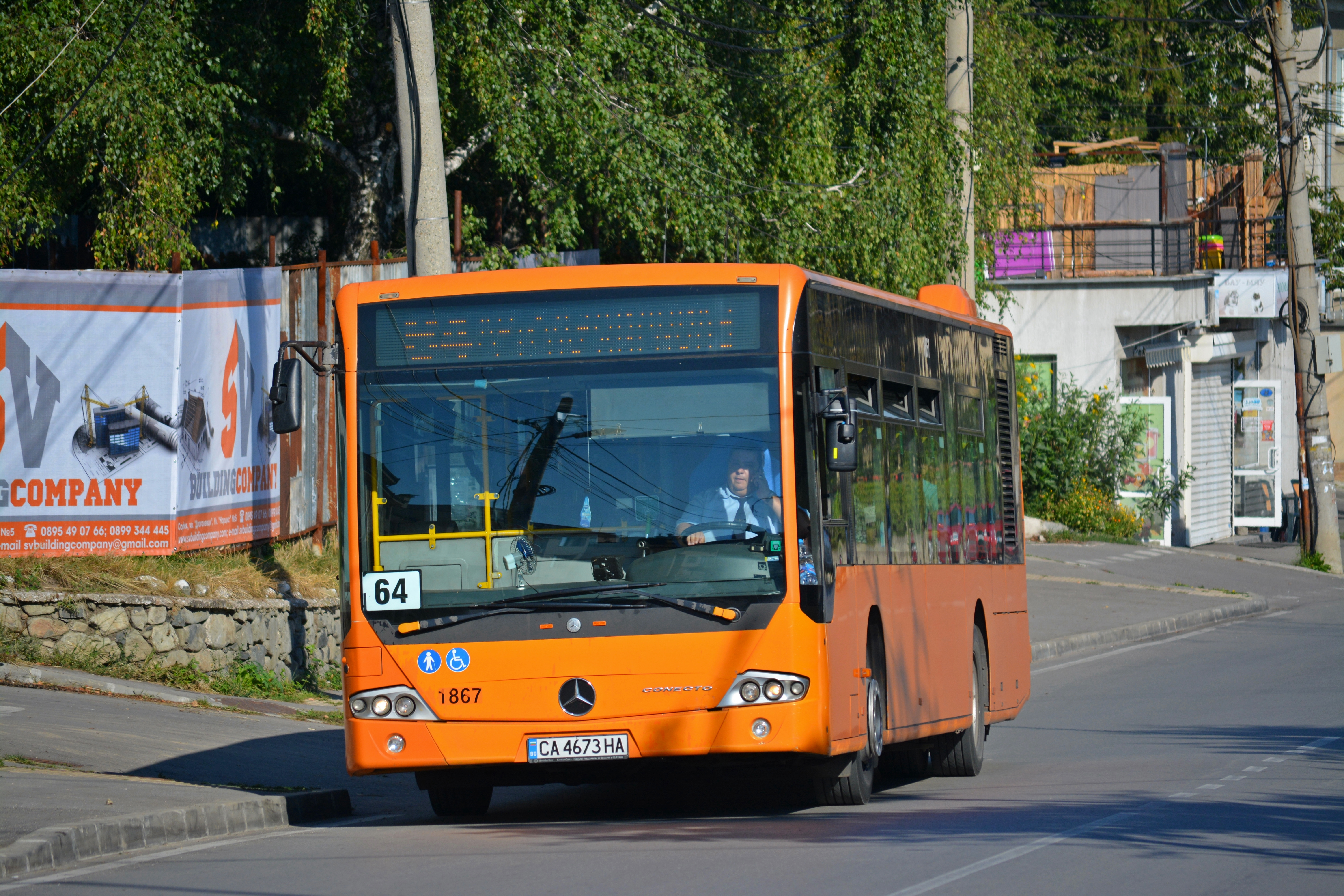 A public transportation bus owned by Stolichen Avtotransport on line in Sofia.